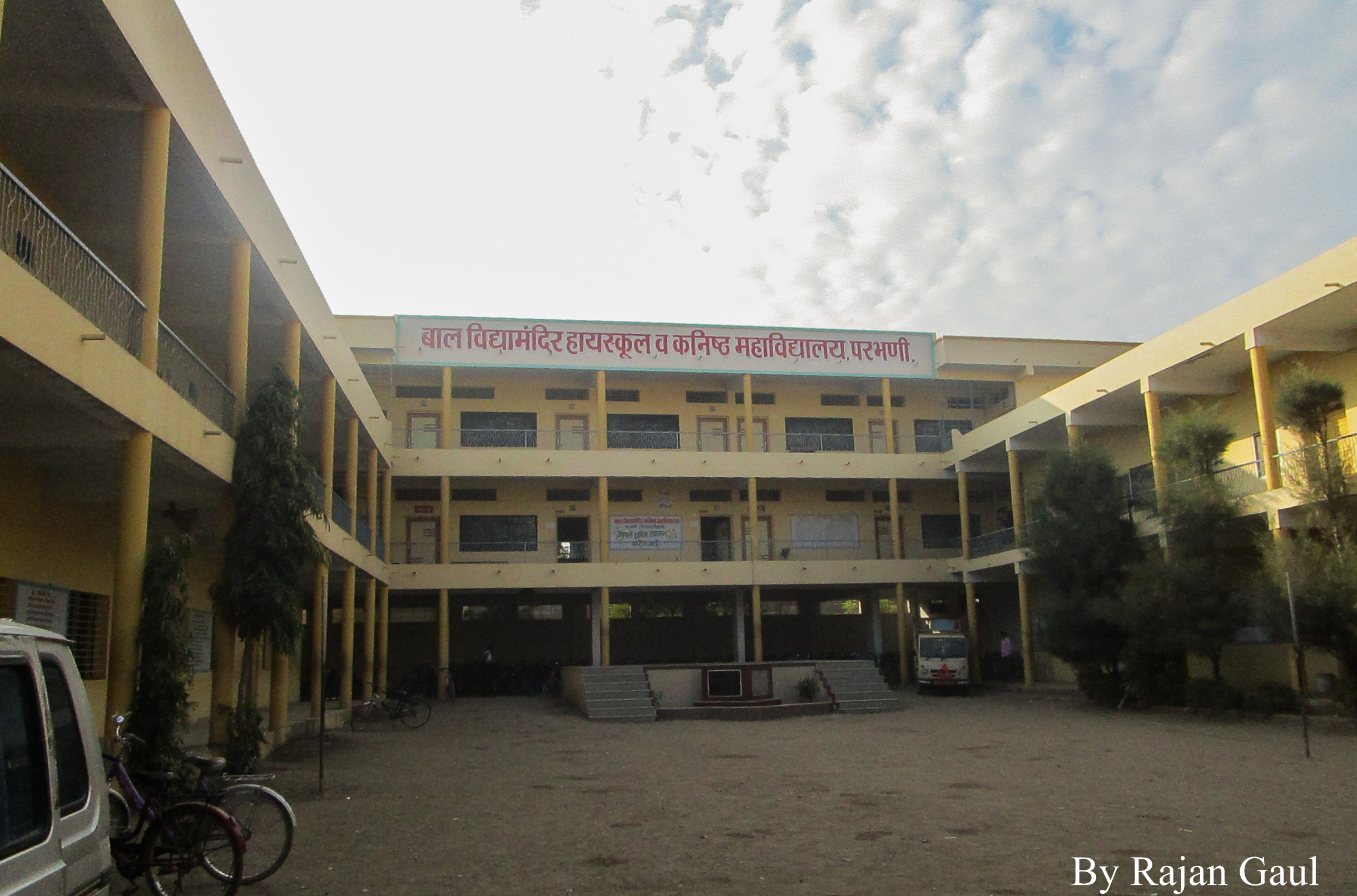 Main Building of the High School